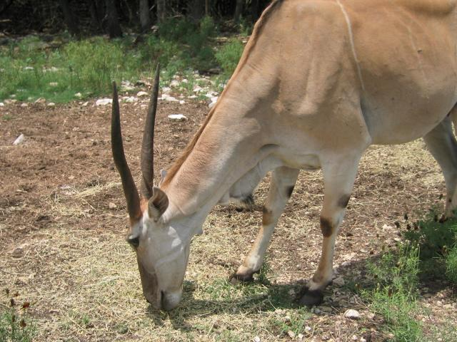 Eland (Taurotragus oryx)